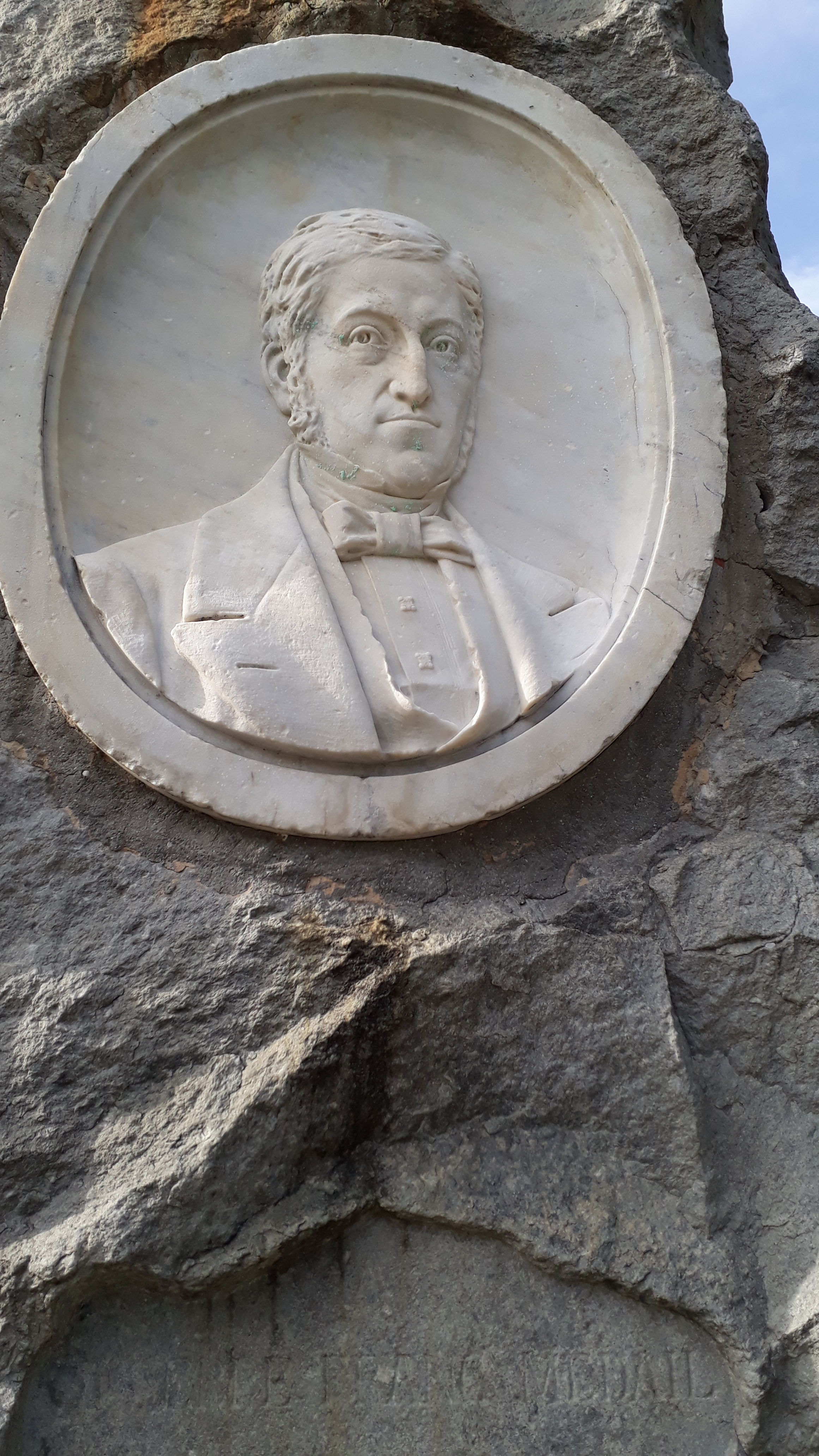 Giuseppe Francesco Medail